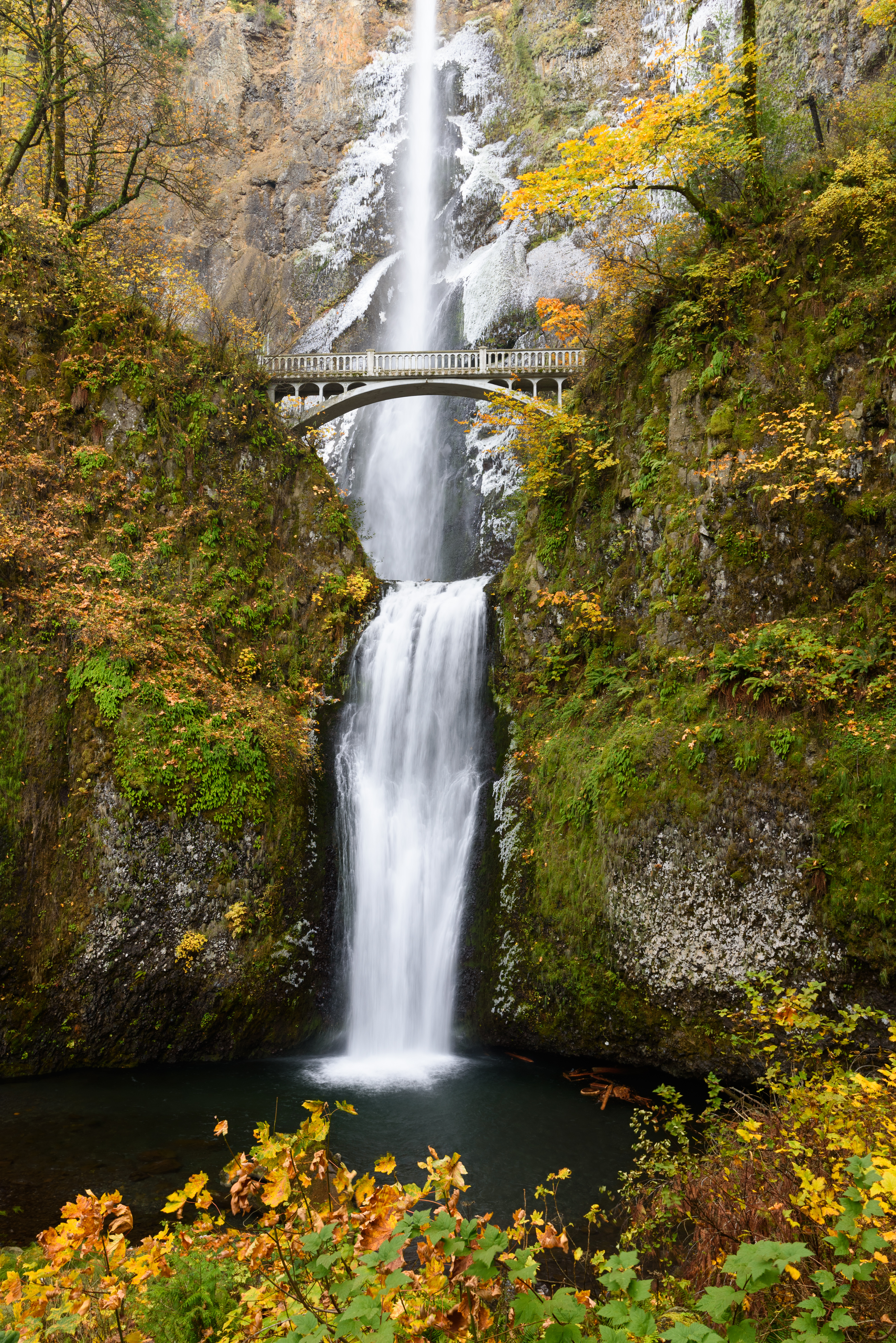 Multnomah Falls, Columbia River Gorge, Oregon. Waterfall blended from the median of eight exposures, with foliage taken from a single exposure.